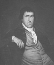 Goodhue